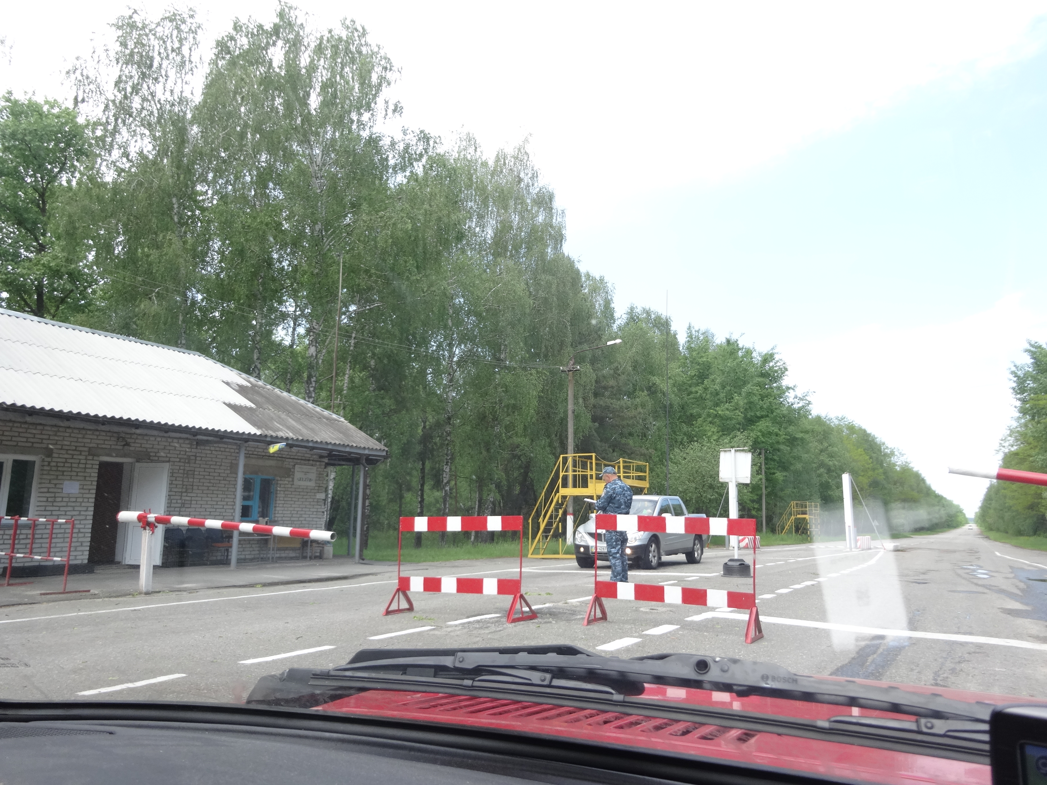 Leliv checkpoint to the 10km exclusion zone